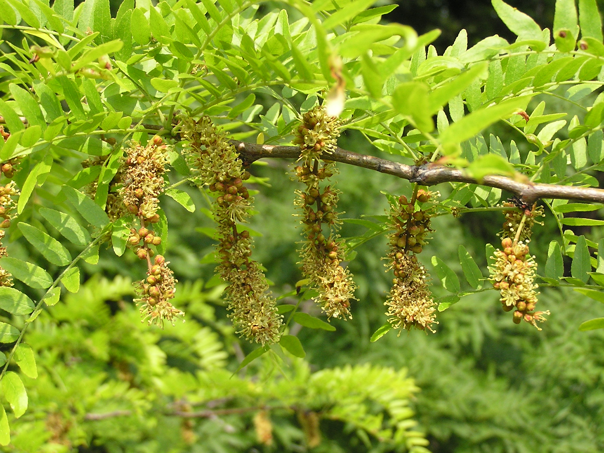 Gleditsia triacanthos